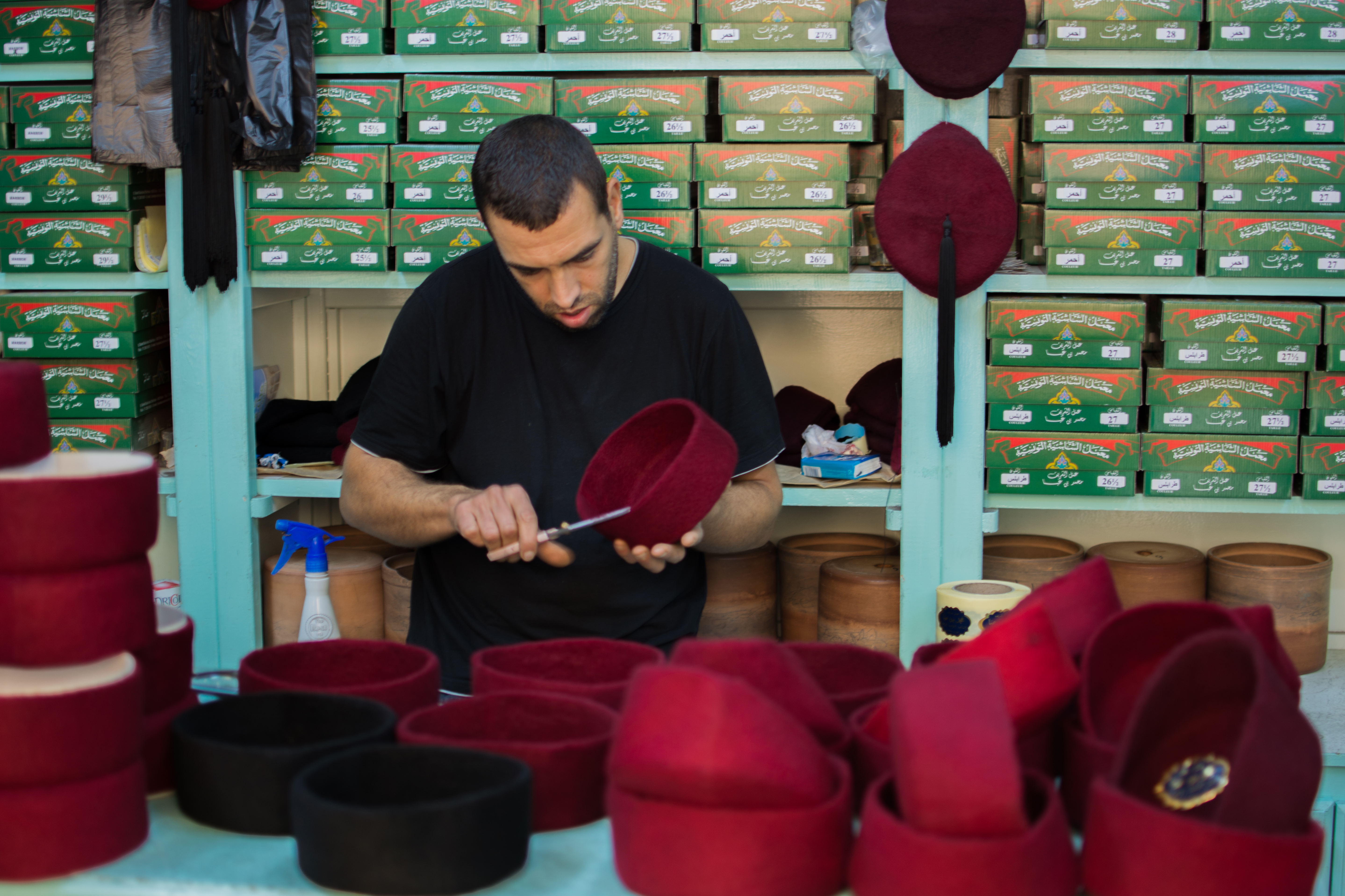 This is an image of Cultural Fashion or Adornment from Tunisia